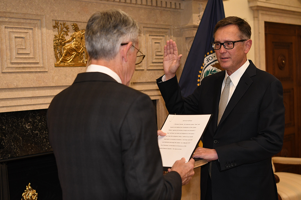 Chairman Powell swears in Vice Chairman Richard H. Clarida